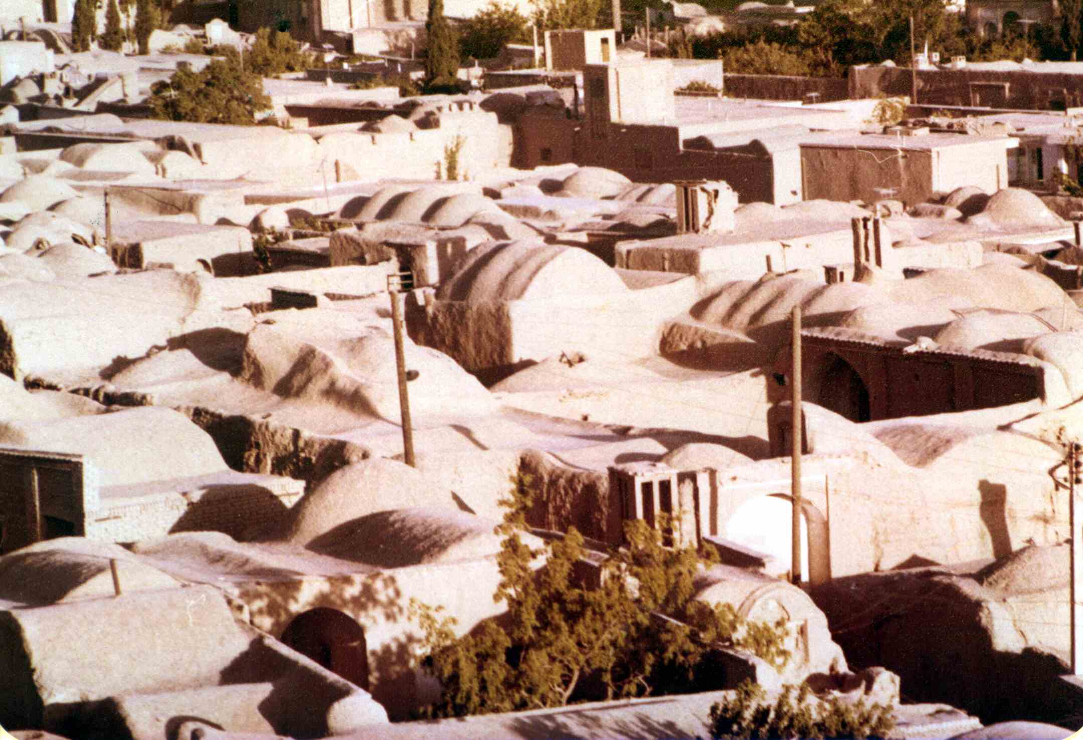 Birjand in 1970s